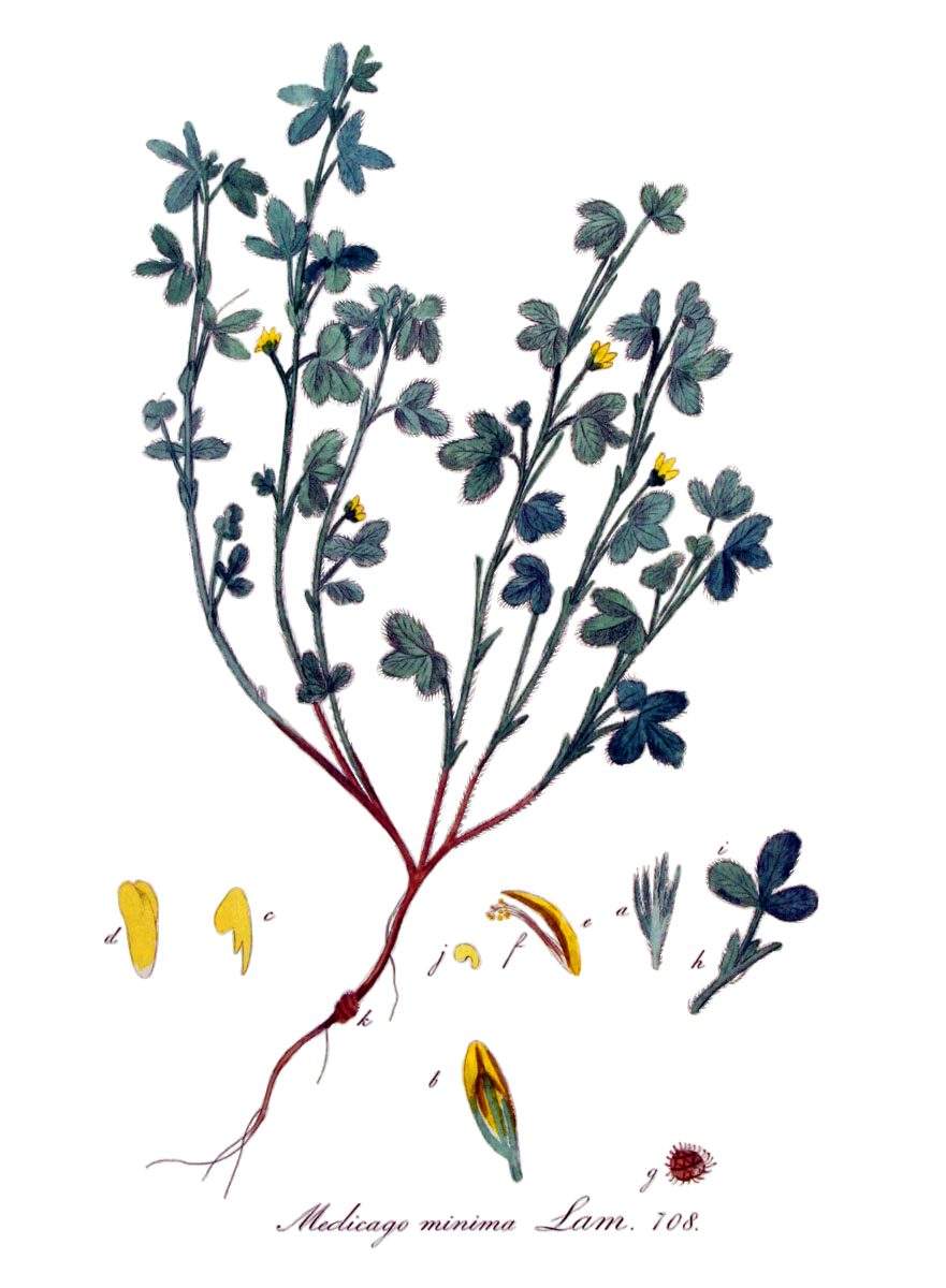 Illustration of Medicago minima (L.) L.